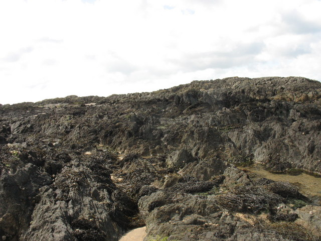 On the dark-coloured Precambrian outcrops of Ynys Feirig, Anglesey